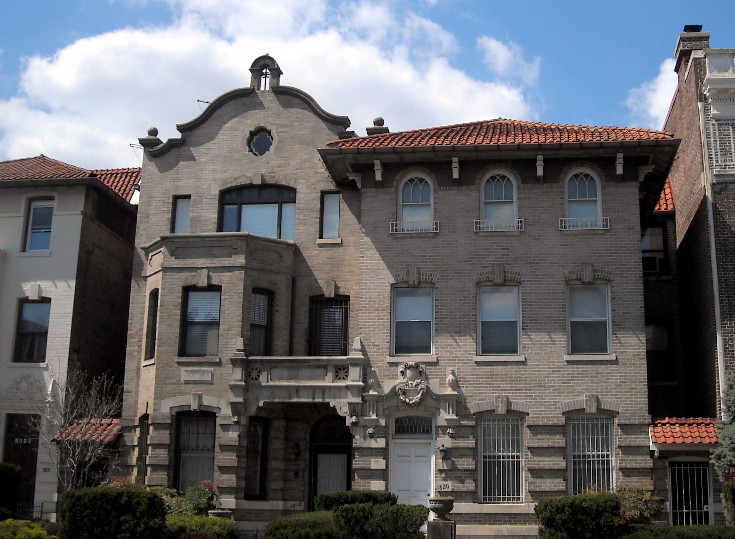 Row houses, located at 1818 (left) and 1820 (right) 19th Street, N.W., in the Dupont Circle neighborhood of Washington, D.C. The Mediterranean Revival-style homes were designed by the local architectural firm of Wood, Donn, & Deming in 1904. They are designated as contributing properties to the Dupont Circle Historic District, listed on the National Register of Historic Places in 1978. Previous occupants of 1818 19th Street, N.W., include: General Benjamin F. Hawkes, a veteran of the Second Seminole War, Mexican–American War, and the American Civil War. Commander Albert L. Key (son of U.S. Senator David M. Key and father of Assistant Secretary of State David McKendree Key), U.S. naval attaché in Peking, commander of the USS Salem, and naval aide to President Theodore Roosevelt. Joseph M. Dixon, a U.S. Representative, U.S. Senator, and the 7th Governor of Montana. Edgar E. Clark, chairman of the Interstate Commerce Commission Brigadier General Charles G. Treat, a veteran of the Spanish–American War and World War I, and recipient of the U.S. Army Distinguished Service Medal. Major General William Josiah Snow, recipient of the Distinguished Service Medal, Legion of Honor and Companionship of the Order of the Bath, the first Chief of Field Artillery, U.S. Army, a founder of the Field Artillery Journal, and author of Signposts Of Experience. Previous occupants of 1820 19th Street, N.W., include: Ralph Warren Hills, a U.S. diplomat to the Qajar dynasty and Kingdom of Italy, and author of three books. Charles A. Culberson, a U.S. Senator and the 21st Governor of Texas. Lieutenant General Hugh A. Drum, Inspector General of the U.S. Army, recipient of the Silver Star, Distinguished Service Medal, Mexican Border Service Medal, and Cross of War, and the namesake of Fort Drum.